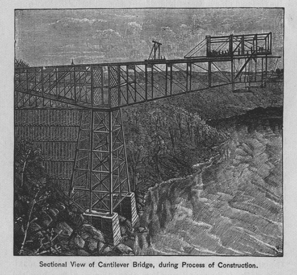 "Sectional View of Cantilever Bridge, during Process of Construction" from Illustrated Guide to Niagara Falls, Buffalo and Neighboring Points of Interest, also titled A New Guide To Niagara Falls And Vicinity, Giving A Full And Complete Description of Niagara Falls, Suspension Bridge, Buffalo, Rochester, Ontario Beach, Toronto, Lockport, Tonawanda, Lewiston, Niagara-On-The-Lake, Chautauqua, And Other Places Of Interest.